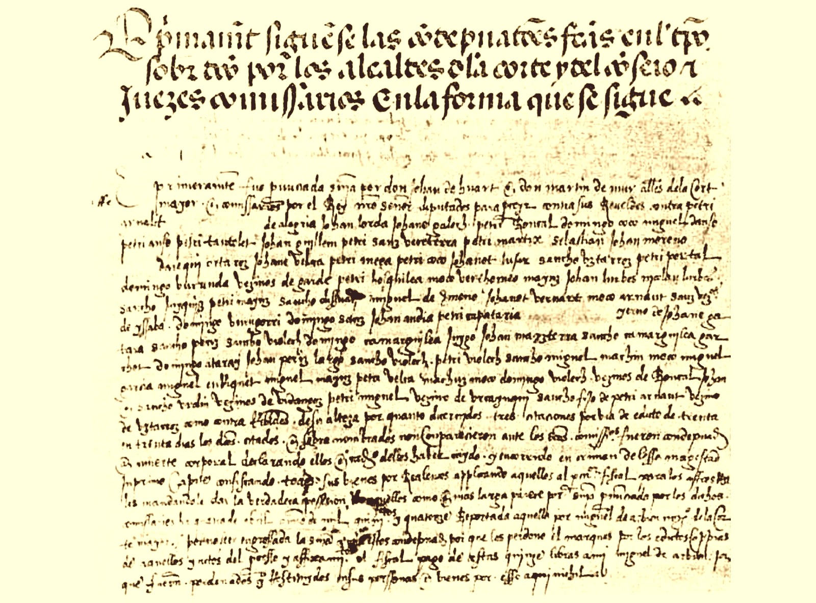 Document issued in 1514, by the representatives of the winning government, after the conquest of Navarre, with a list of people from Roncal sentenced to death for lese majesty